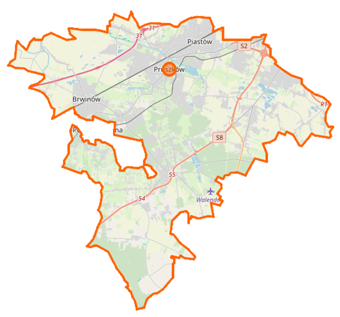 Map of Powiat pruszkowski, Poland This map of Powiat pruszkowski was created from OpenStreetMap project data, collected by the community. This map may be incomplete, and may contain errors. Don't rely solely on it for navigation.